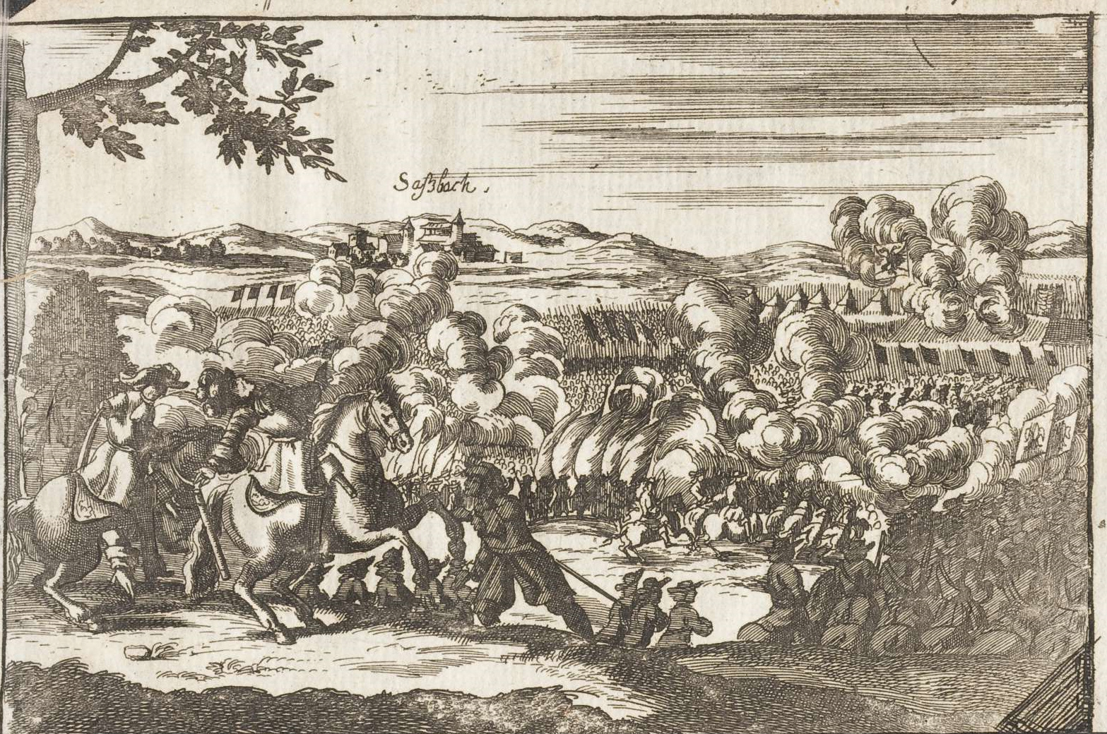 Batlle of Sasbach (1675), engraving from the book:Martialischer Schau-Platz/ Des Lustreichen und zuglich blutigen Rhein-Strohms , Hofmann, Nürnberg 1690, Page 121